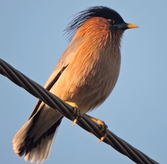 brahminy starling, ਮੋਹਾਲੀ , ਪੰਜਾਬ , ਚੰਡੀਗੜ੍ਹ